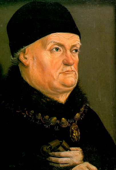 A potrait of Rene of Anjou, the titular King of Naples, part of the Matheron Diptych portraing also his second wife Joanne of laval.